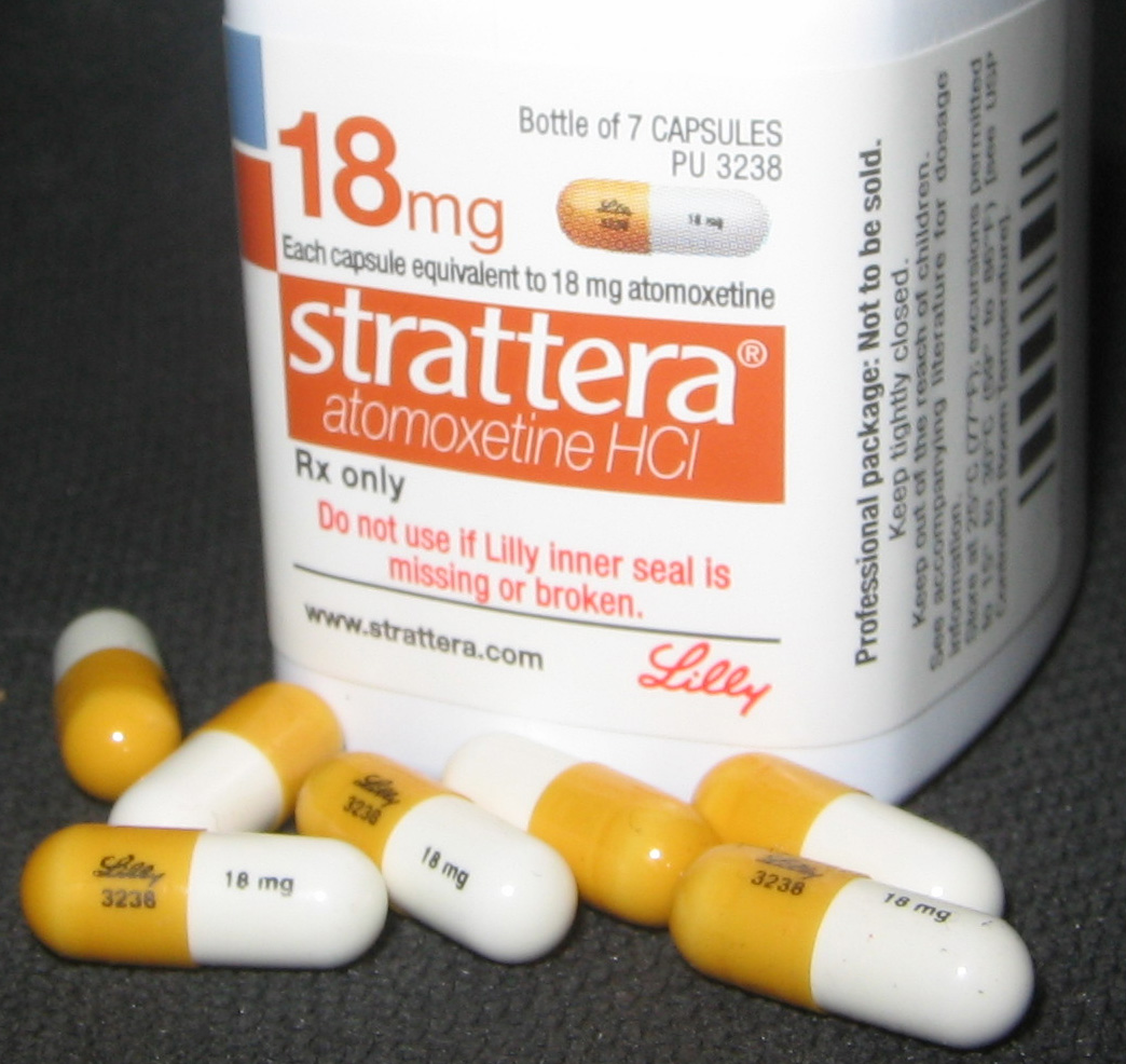 I, Logan Crocker, took this picture and release it to the public domain.